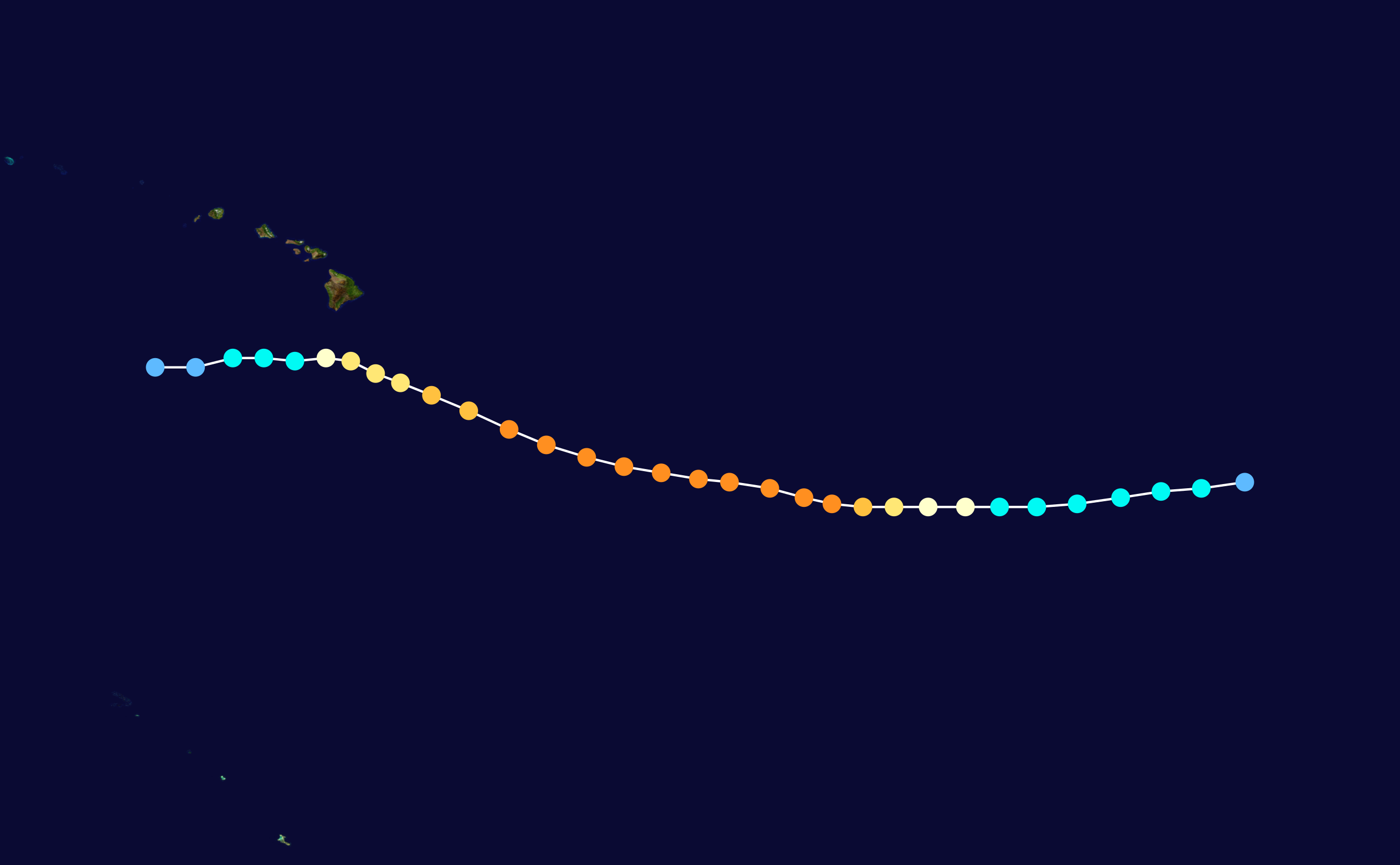 Track map of Hurricane Flossie of the 2007 Pacific hurricane season. The points show the location of the storm at 6-hour intervals. The colour represents the storm's maximum sustained wind speeds as classified in the Saffir–Simpson scale (see below), and the shape of the data points represent the nature of the storm, according to the legend below. Saffir–Simpson scale Tropical depression≤38 mph≤62 km/h Category 3111–129 mph178–208 km/h Tropical storm39–73 mph63–118 km/h Category 4130–156 mph209–251 km/h Category 174–95 mph119–153 km/h Category 5≥157 mph≥252 km/h Category 296–110 mph154–177 km/h Unknown Storm type Tropical cyclone Subtropical cyclone Extratropical cyclone / Remnant low / Tropical disturbance / Monsoon depression